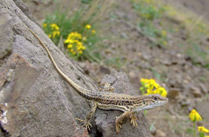 the animal in its natural habitat